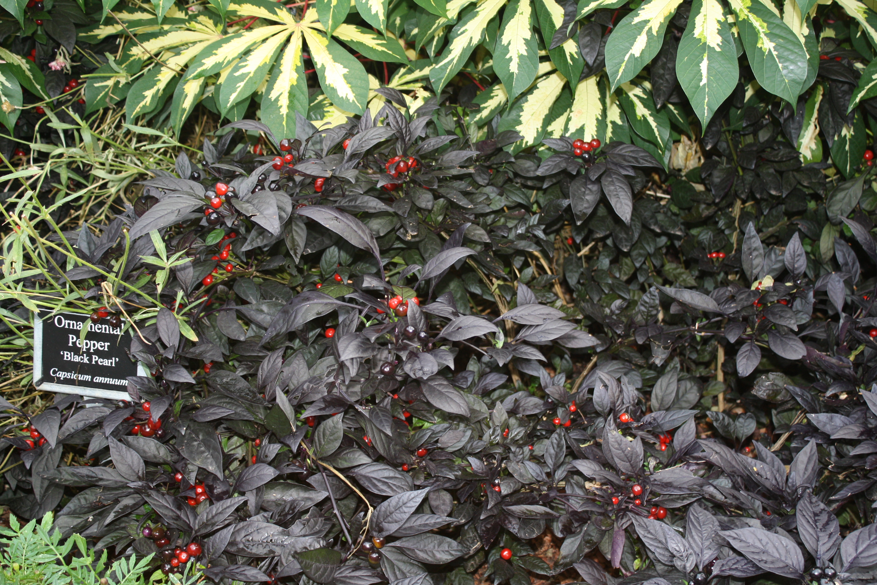 Black Pearl - Family: Solanaceae Genus: Capsicum Species: annuum - Ornamental Pepper - Dallas Arboretum